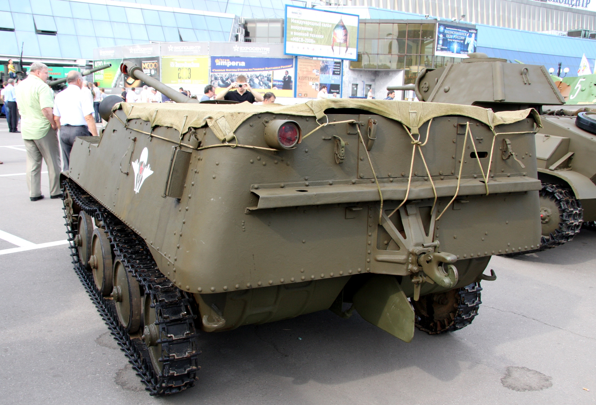 ASU-57P swimming self-propelled artillery at IDELF-2008.